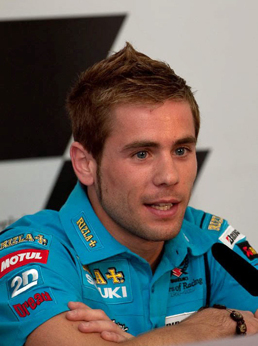 Álvaro Bautista 2010 Qatar